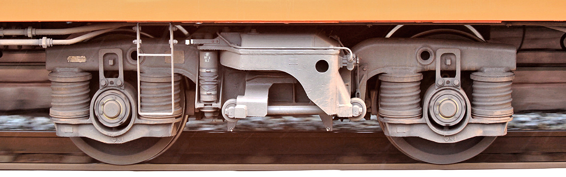 Type TR231A bogie truck of JNR 201 series EMU, belongs to the JR West.